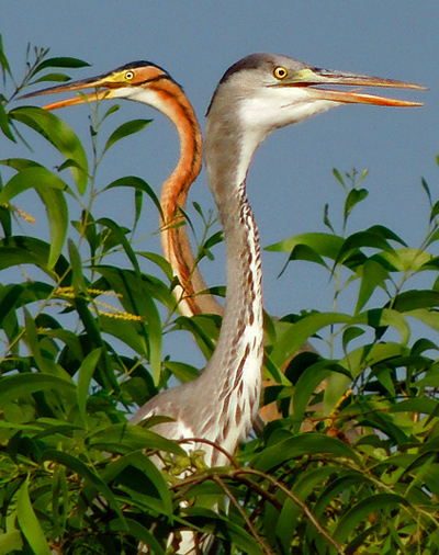 Purple Heron (Ardea purpurea) and Grey Herons (Ardea cinerea)